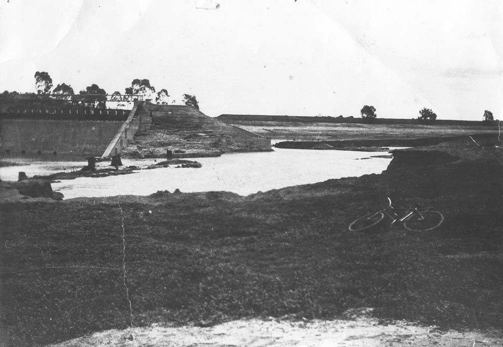 breach of Laanecoorie Dam Wall during 1909 flood